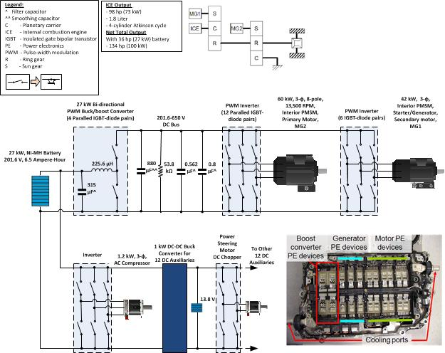 2010 toyota Prius hybrid electric drive system. Adapted from: Oak Ridge National Laboratory's links - - James Glover's Dave Wilson's